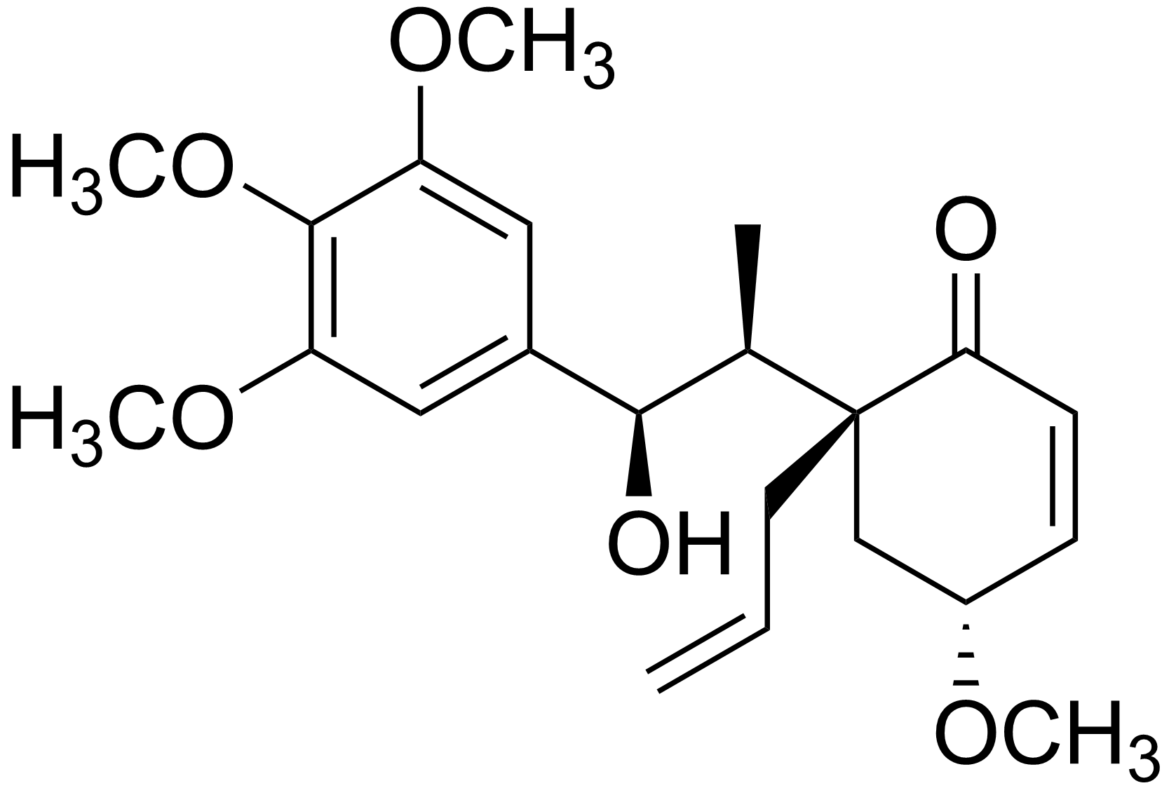 Chemical structure of the compound known as megaphone